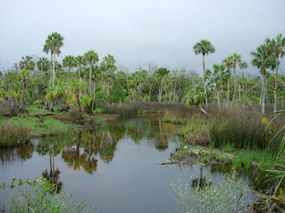 Tidal Creek off Dixie Mainline at Lower Suwannee National Wildlife Refuge from US Fish and Wildlife Service site